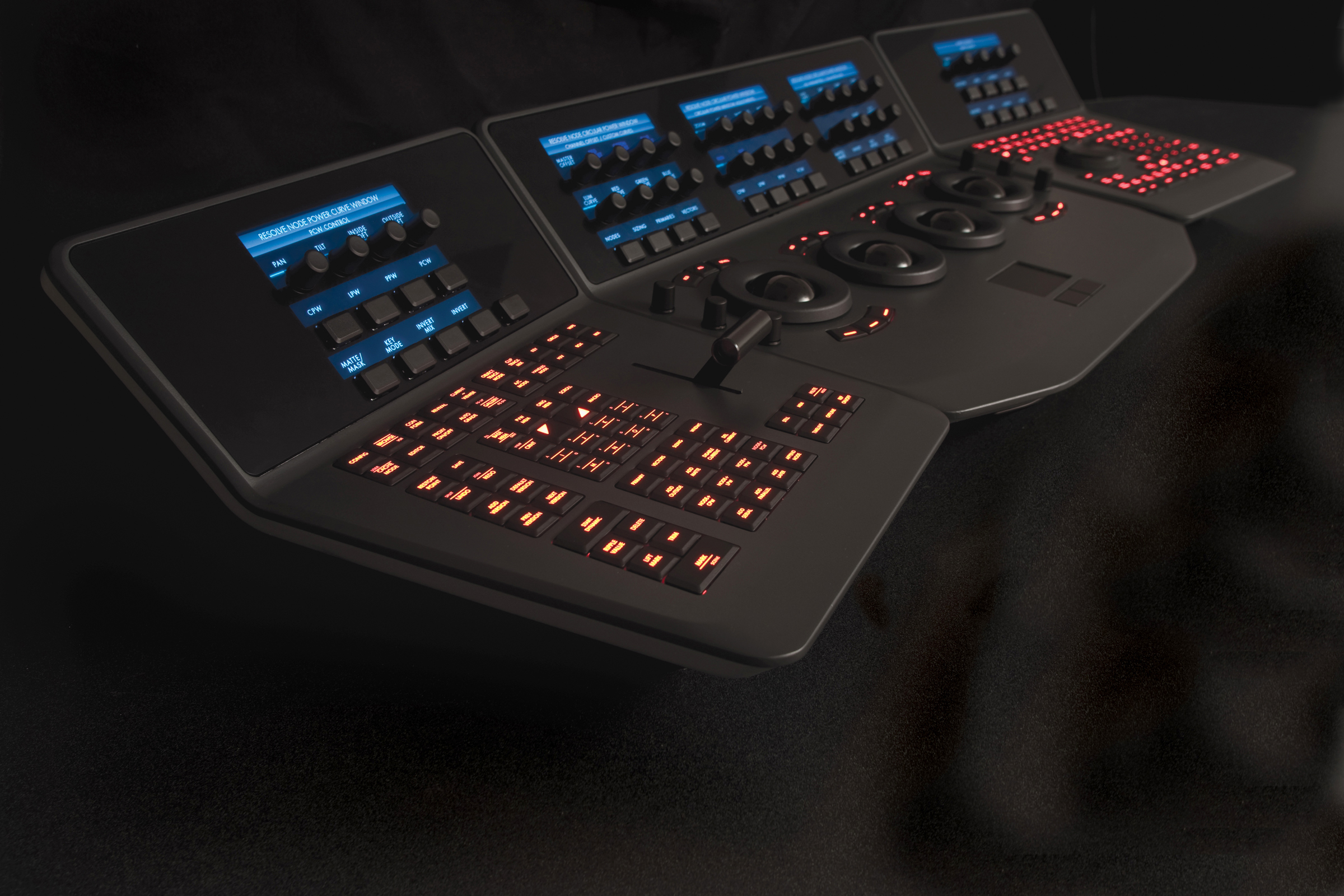 da Vinci Impresario Color Grading Control Panel - Side View